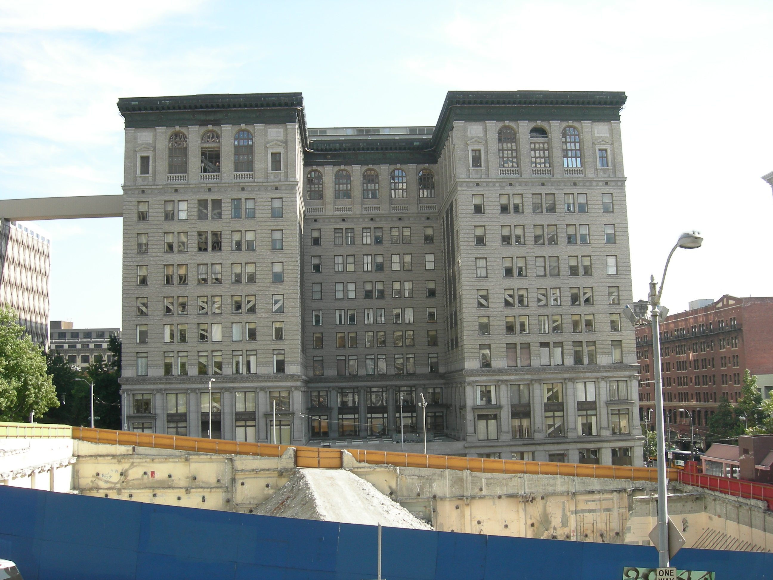 King County Courthouse, 3rd Avenue and James Street, Seattle, Washington, USA.